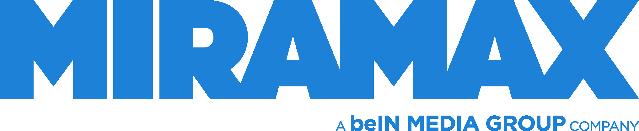 Miramax new logo 2018. "MIRAMAX®" and the "Miramax" logo are the registered trademarks, trademarks and service marks of Miramax, LLC.